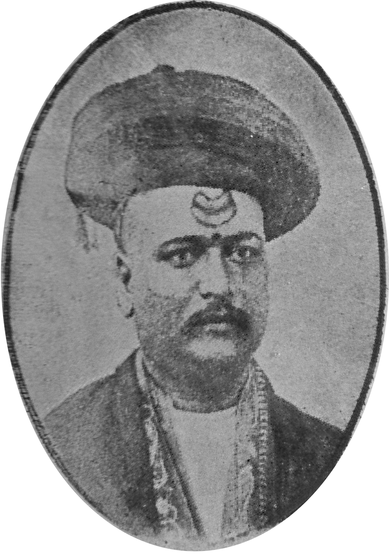 Clicked from Front Page of his Biography